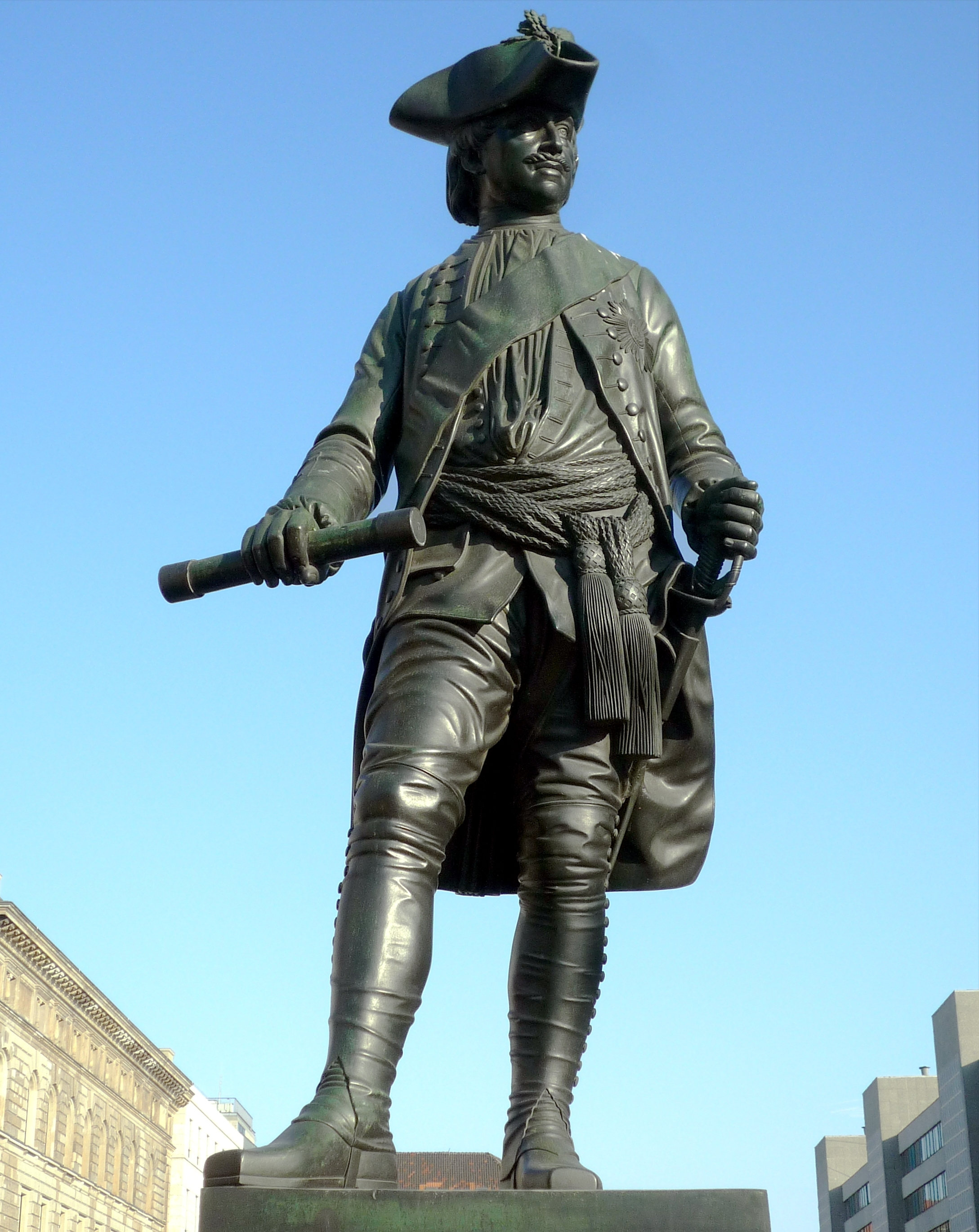 Memorial for the prussian general Leopold von Dessau (1693-1743). Originally a marble statue, made by Johann Gottfried Schadow and placed at the former Wilhelmplatz in Berlin in 1800. Replaced by a reproduction, made of bronze, by August Kiss in 1857. Re-erected in 2005.